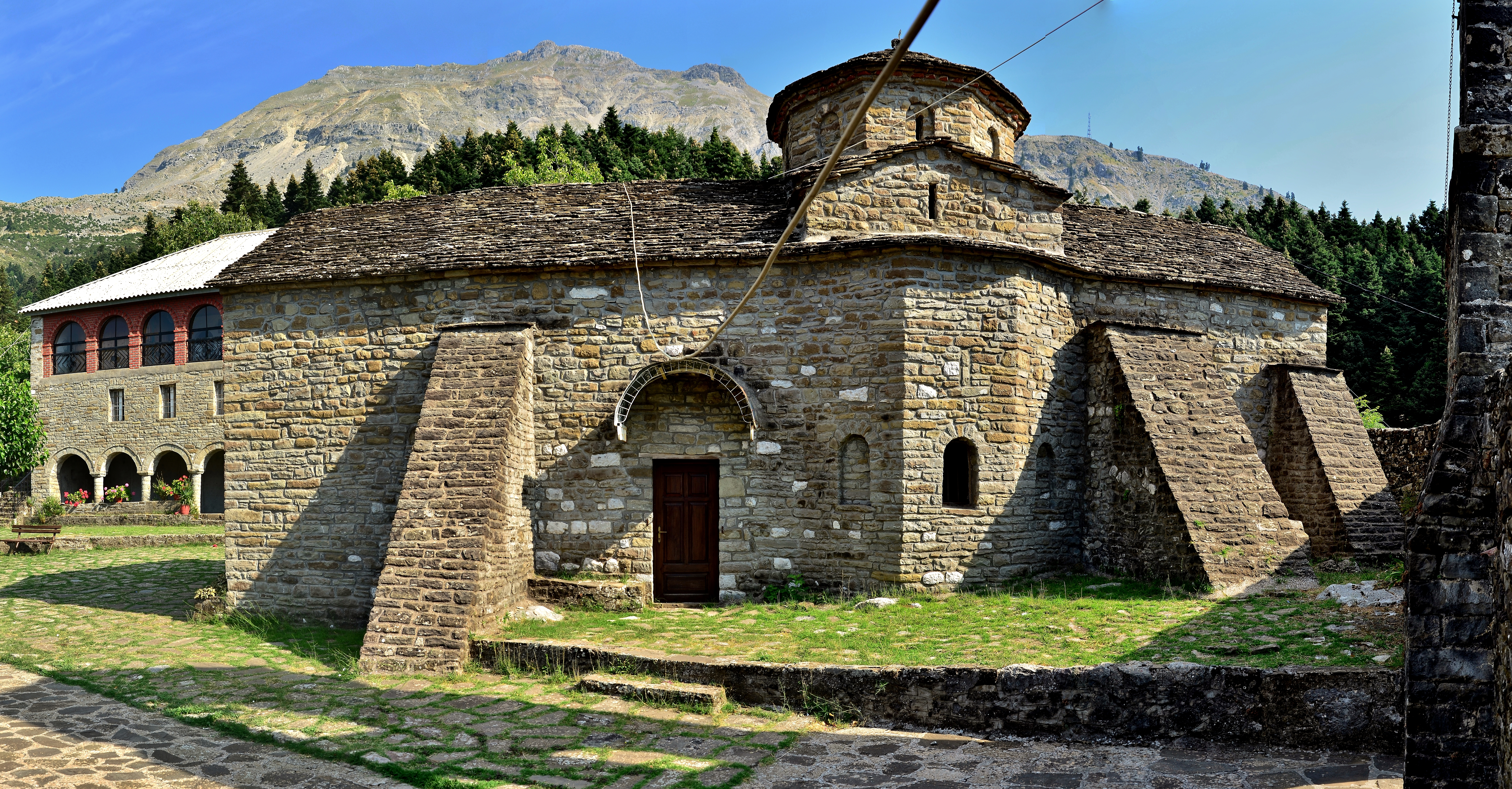 Agios Georgios monastery at Vourgareli, Arta prefecture